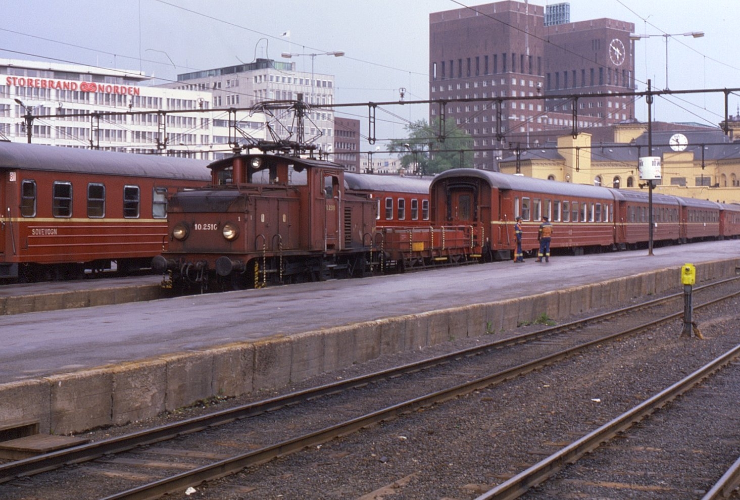 Closed in 1989, this station served some trains on the line towards Drammen. Seen here on 11 June 1986 is NSB class 10, no. 10.2510. 13 of these existed on the Norwegian Railways with over 150 built for Swedish Railways class U.